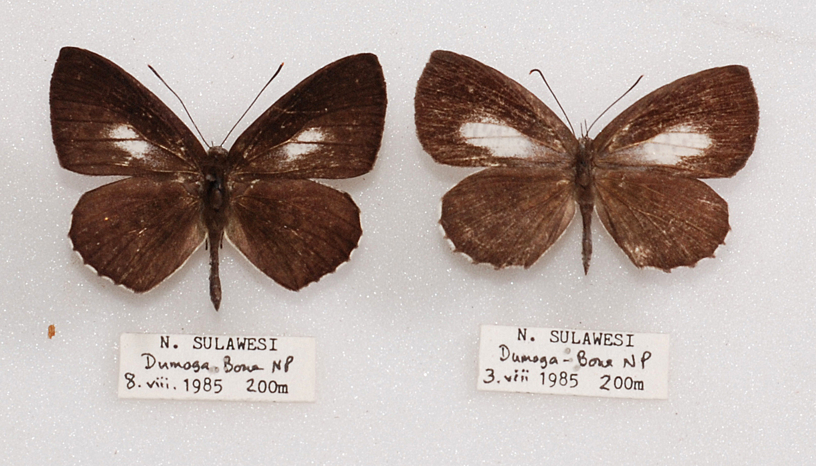 Allotinus major, male and female, upperside, set specimens, Alan Cassidy coll.